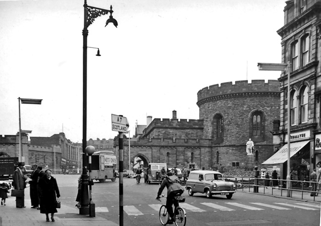 Carlisle city centre, Northward at Botchergate; Court House to right.